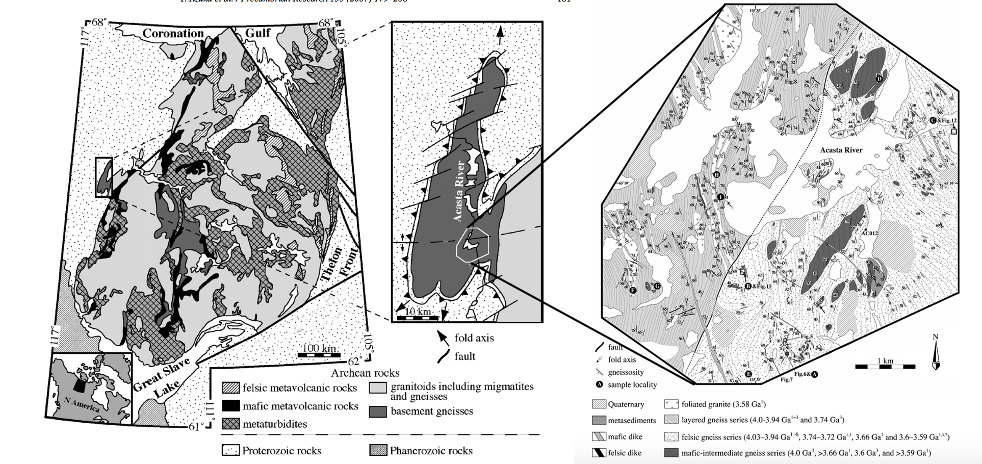 Acasta